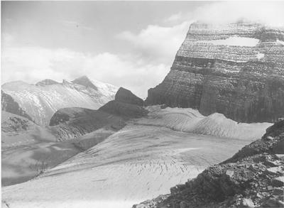 Title: Black and white photo of Grinnell Glacier in Glacier National Park Creator: Hileman, T. J. Date: Unknown Description: Photo of a glacier from above in high mountains. Written on verso: Grinnell Glacier from upper Glacier • I represent Montana State University Library and we are releasing this image into the Creative Commons. Keywords: glacier national park, mountains, glaciers, natural phenomena, scenic views, montana Object ID: 245